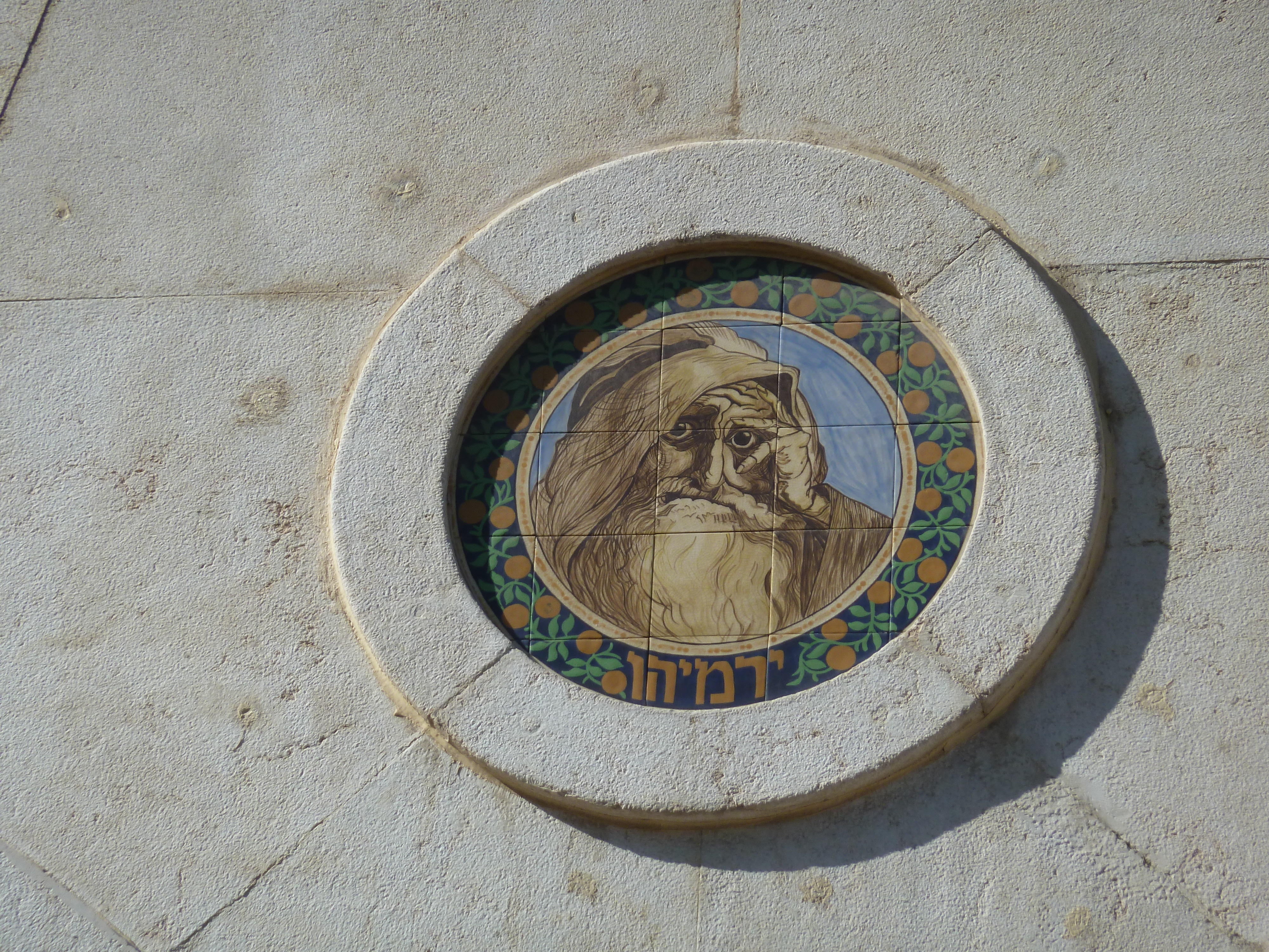 Ehad Haam street, Tel Aviv